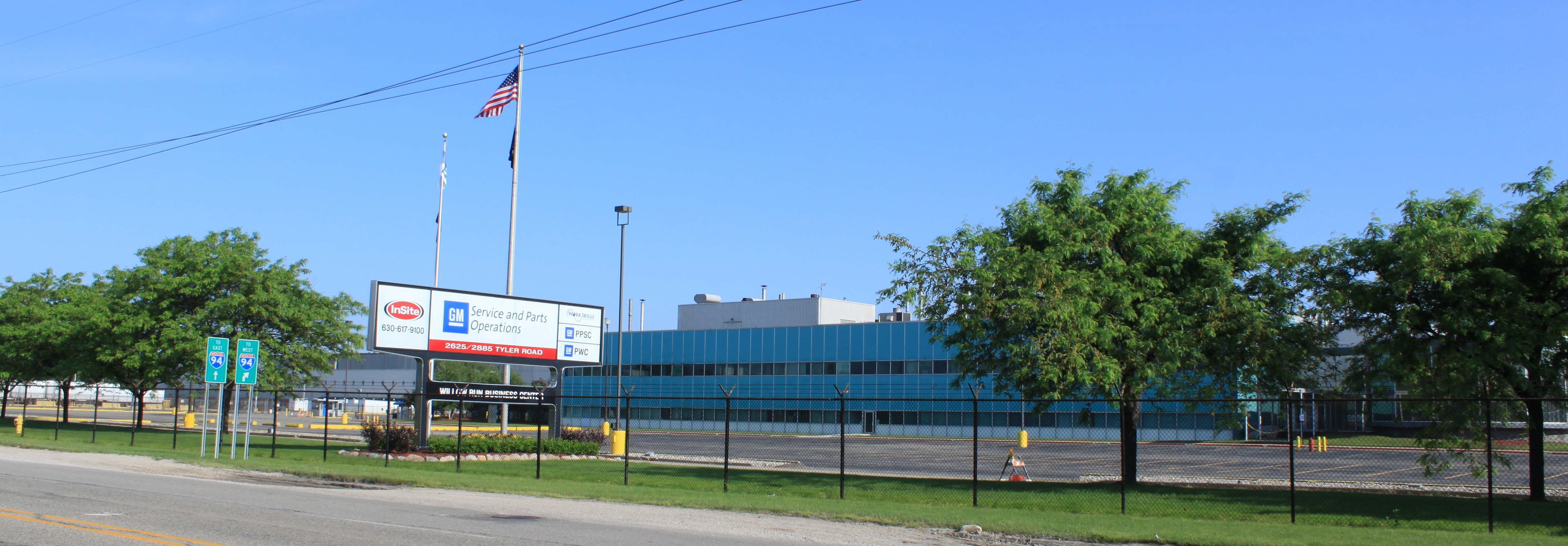 General Motors Service and Parts Operations plant, 2625 Tyler Road, Ypsilanti, Michigan. It was formerly the Willow Run Assembly Plant.